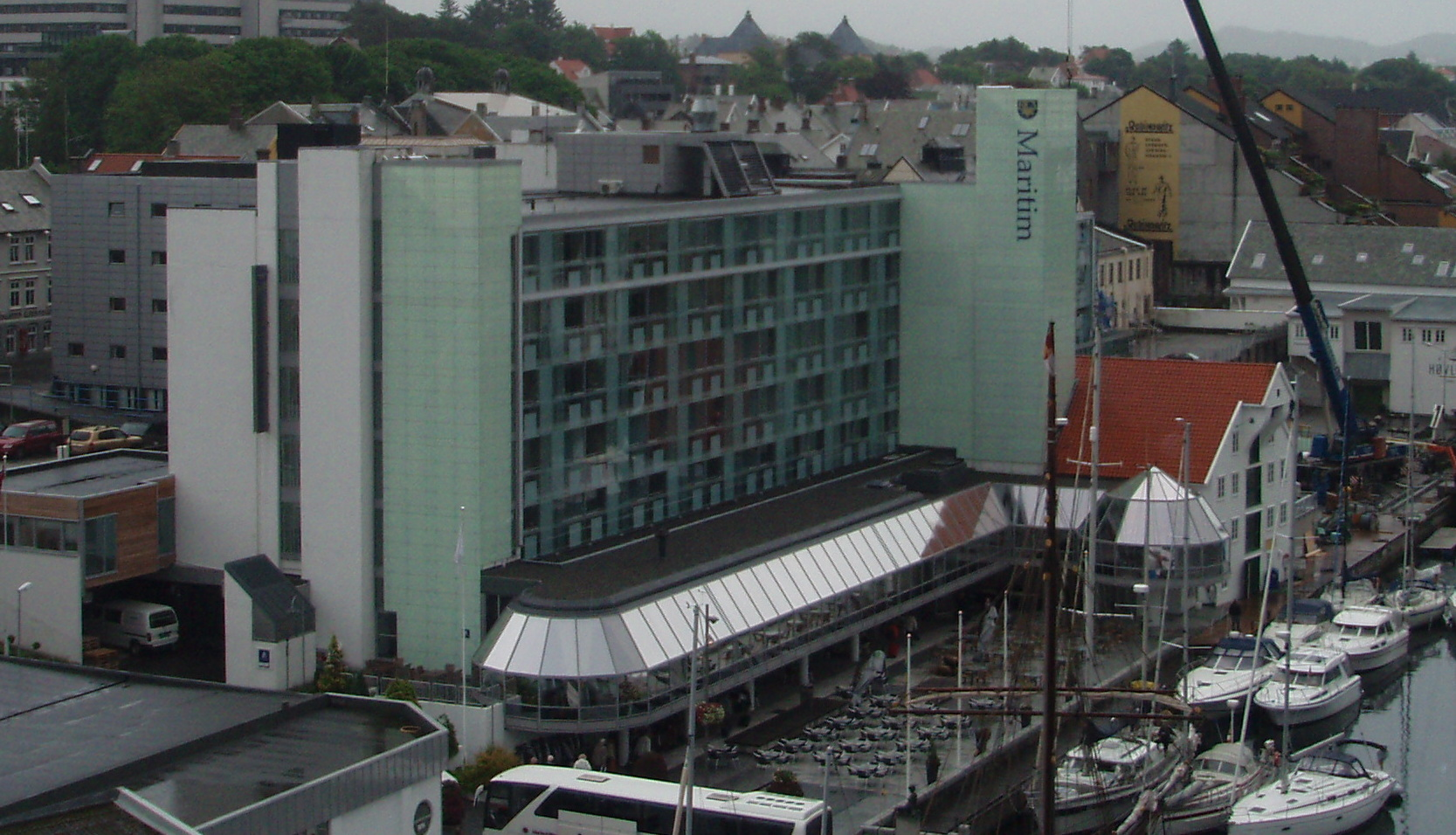 Rica Maritim Hotel in Haugesund, in south-west Norway